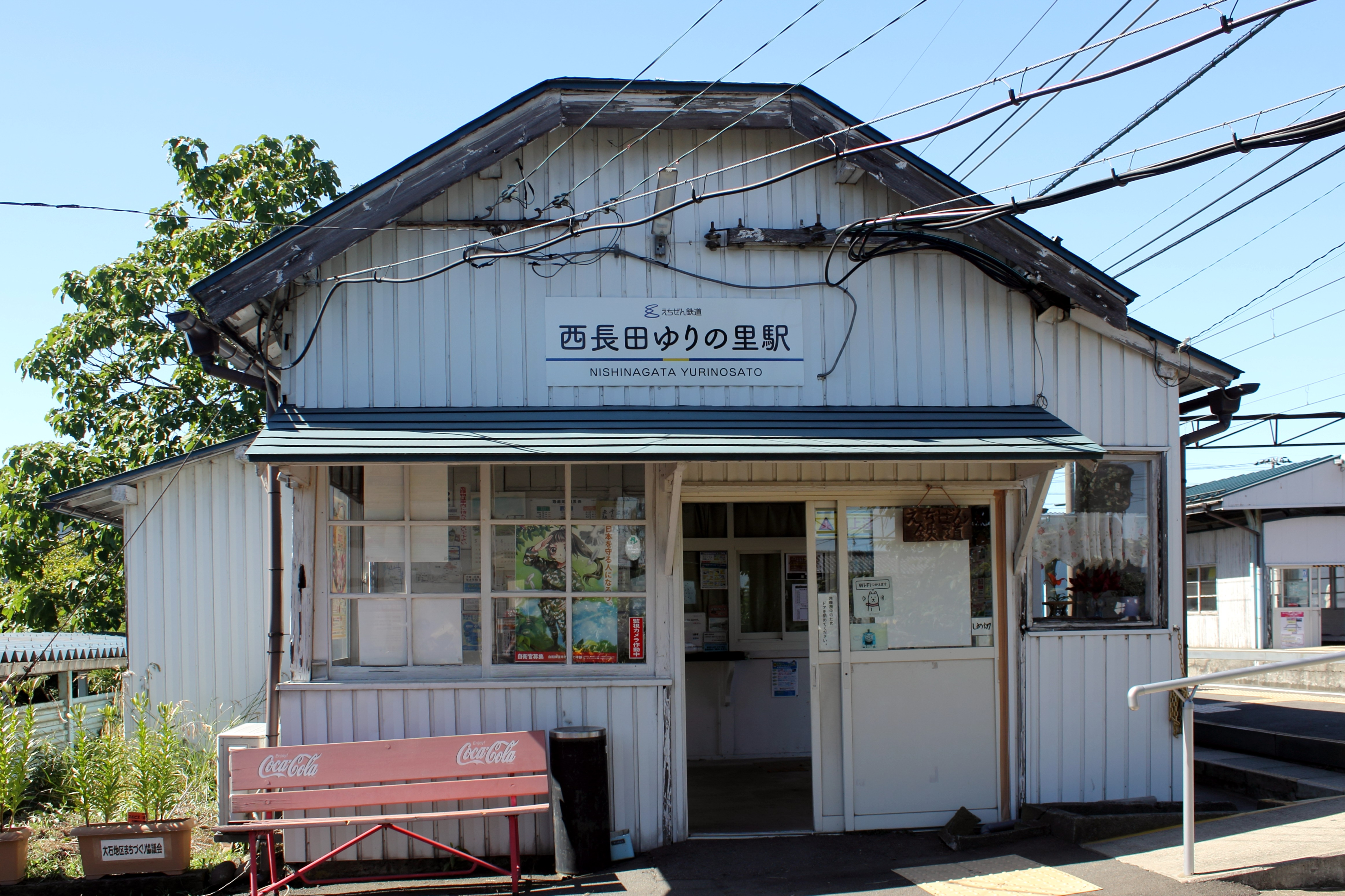 Nishi-Nagata-Yurinosato Station in Fukui Prefecture, Japan